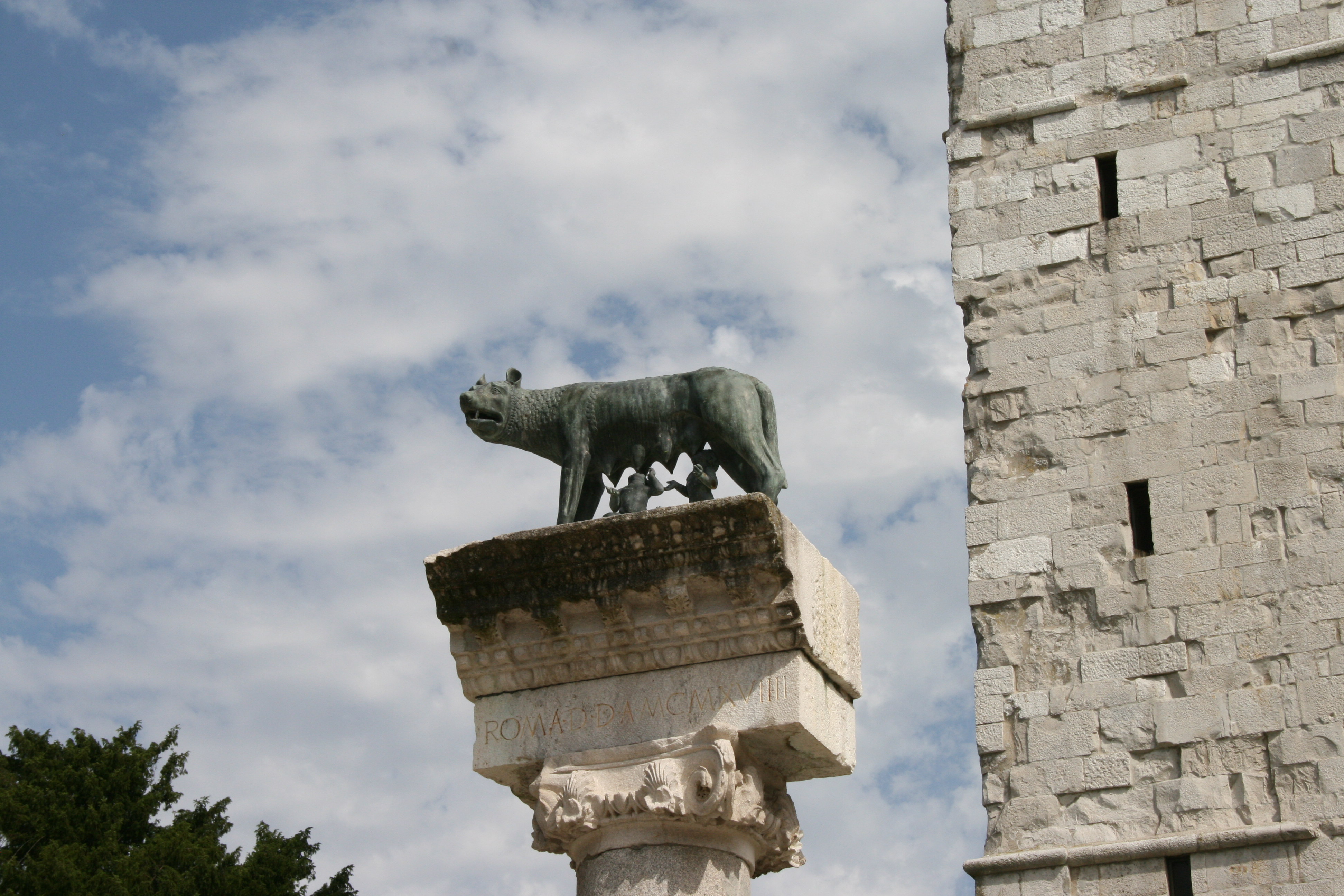 Capitoline wolf next to the cathedral of Aquileia